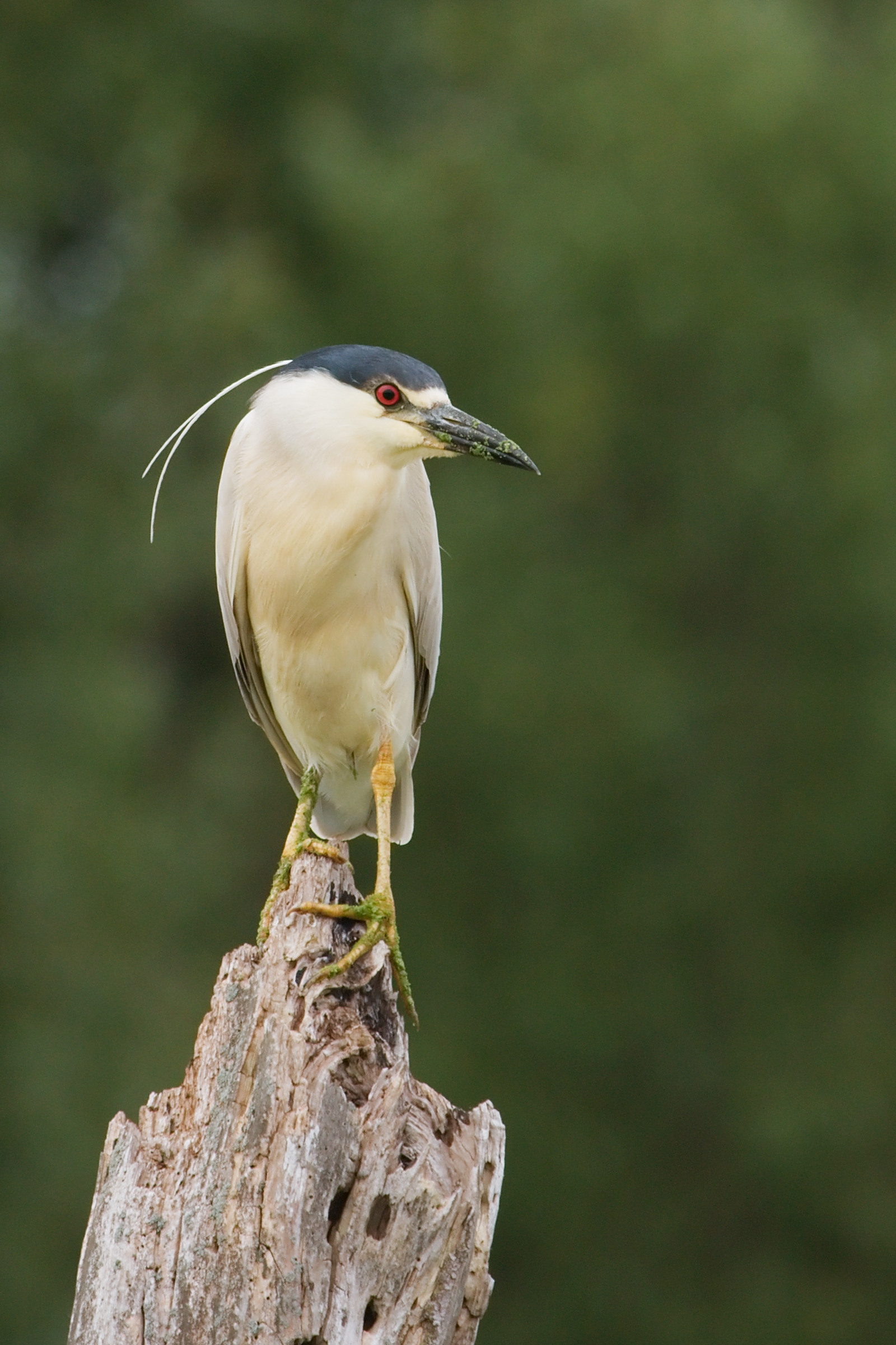 A Black-crowned Night Heron (Nycticorax nycticorax), taken at the Horicon National Wildlife Refuge, Wisconsin, USA.